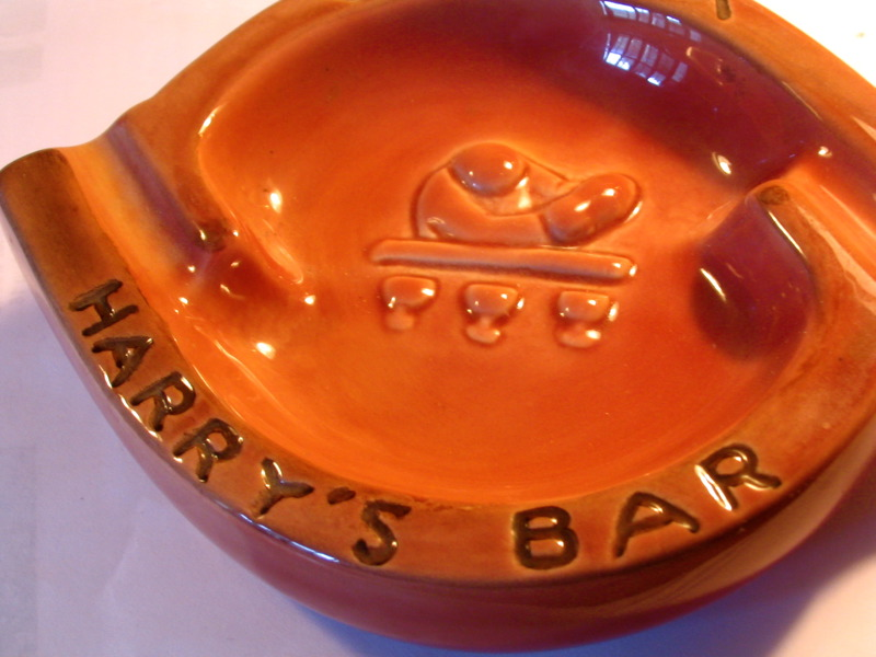 In Venice there are the canals , St. Mark's , gondolas, and Harry's Bar. Don't miss Harry's.